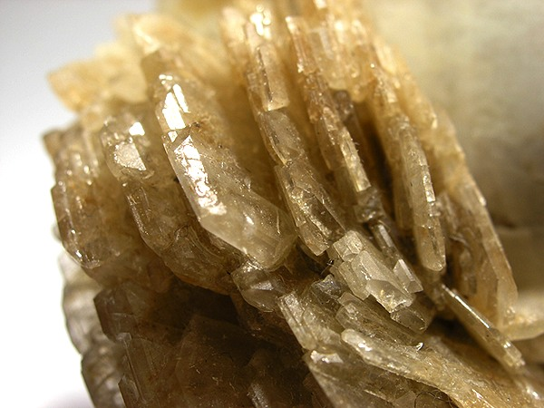 Albite Locality: Little Three Mine (Little 3), Ramona District, San Diego County, California, USA (Locality at ) Size: miniature, 6 x 3 x 2.4 cm Cleavelandite on Albite An unusual specimen that is, surprisingly, a specimen-worthy CLEAVELANDITE on its own merits....whereas the species is usually relegated to host rock or accent mineral and seldom the dominant feature of a nice piece. These lustrous, beige crystals form a wreath over the top of a thin albite crystal. Acquired from the collection of Tim Sherburn, who got it from Louis Spaulding Jr. (current owner of the mine made famous by his father) in 1993. 6 x 3 x 2.4 cm